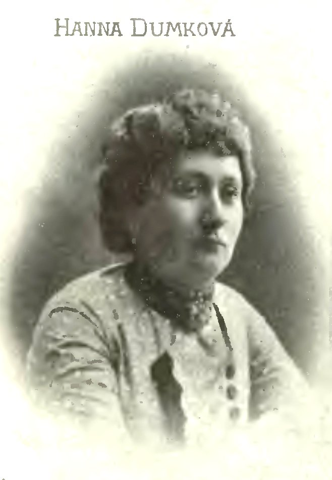 Portrait of Hana Dumková (cca 1851-1920), Czech writer of cook books.